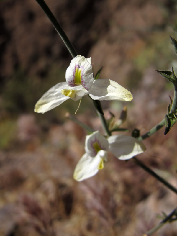 Carlowrightia arizonica (Arizona wrightwort) on the Siphon Draw Trail, Superstition Wilderness, Tonto National Forest, Pinal County, Arizona.